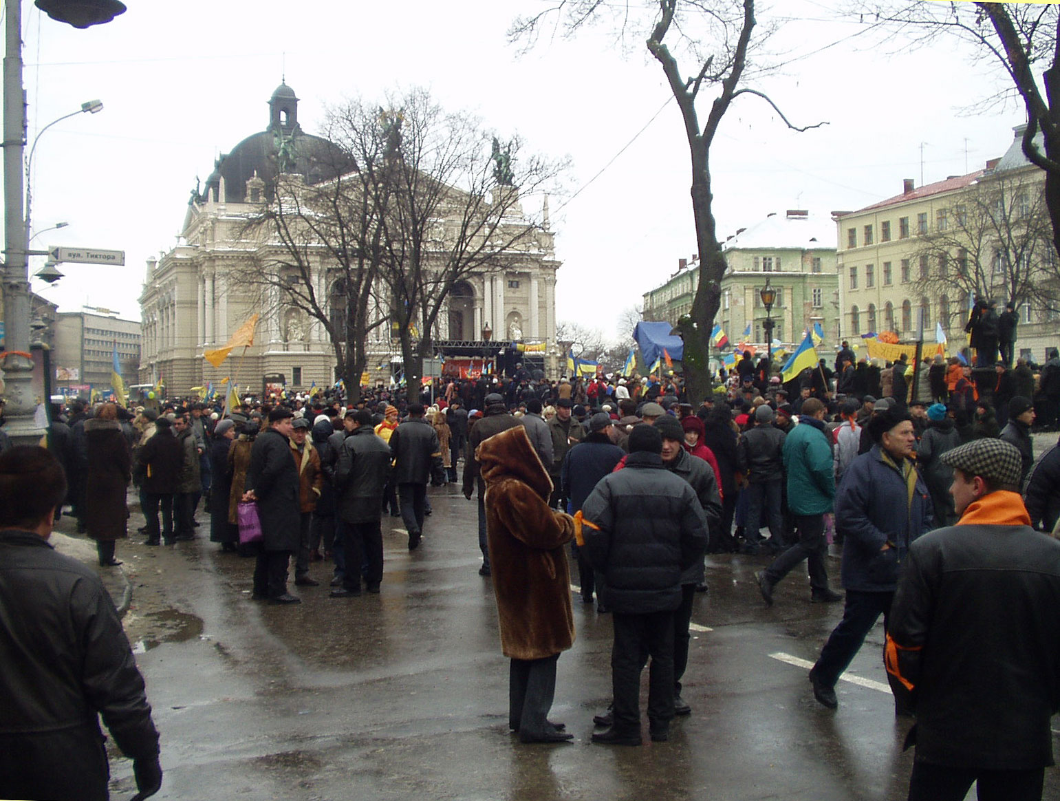 Street Scene from Lviv, Ukraine Information received with this photo: "This is not the demonstration itself, just live between demonstrators."